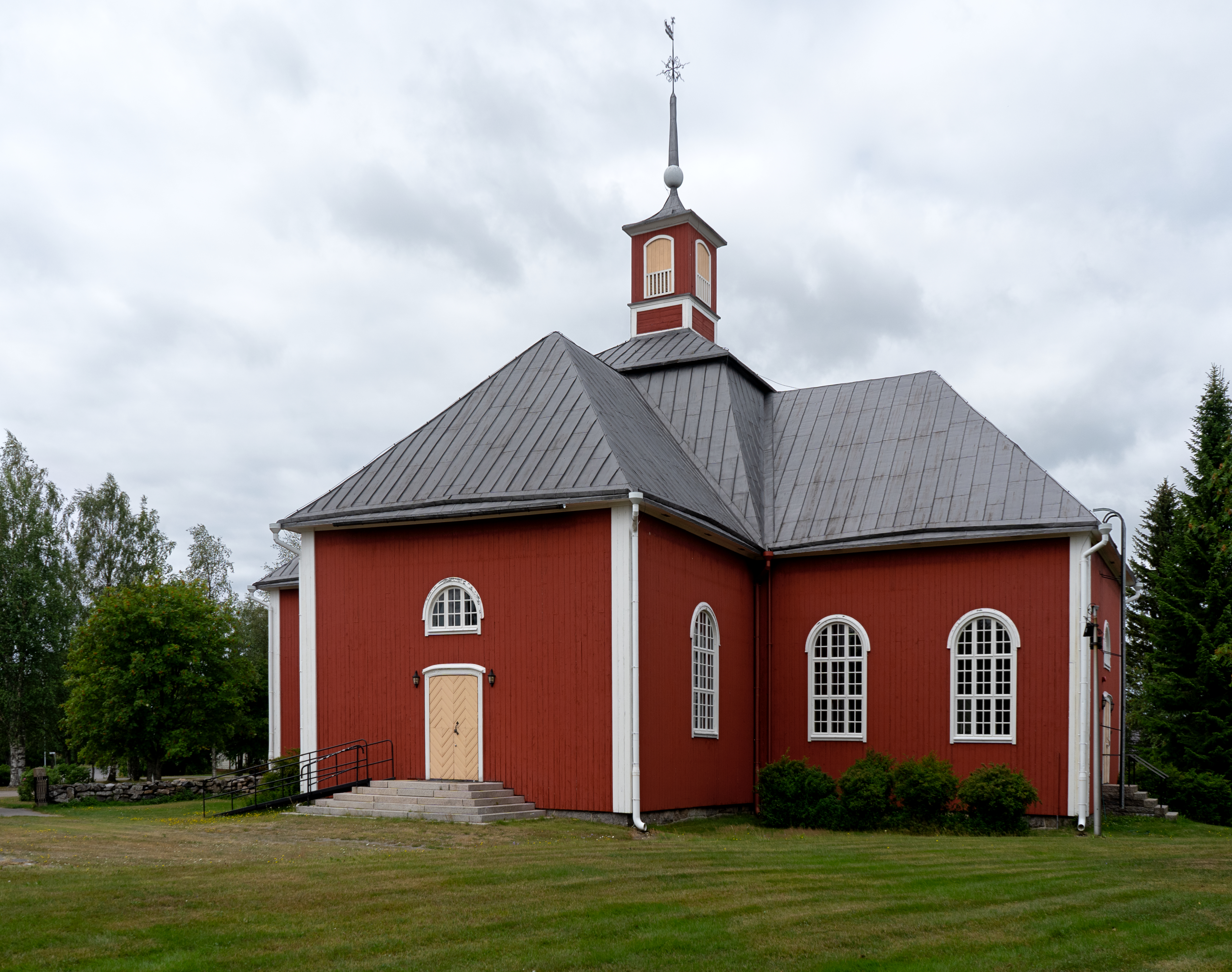 Vihanti Church, Finland.